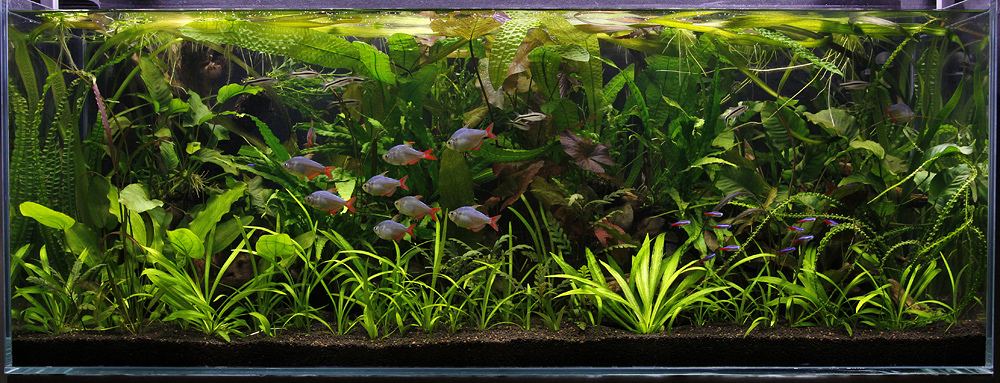 Tank 120x45x45cm Light 2 x 54w T5, 9hrs Filter Fluval FX5 CO2 UP Aqua inline diffuser, 2BPS, solenoid Substrate TMC NutraSoil Ferts Tropica and Aqua Rebel, hard water, 50% water change per week Plants Anubias, ferns, Bolbitis, crypts, swords, Crinums, Aponogetons, Sagittaria, Hygrophila pinnatifida Fish Red-fin Colombian tetra, Pretty tetra, Neon tetra, Penguin tetra, Bristlenose